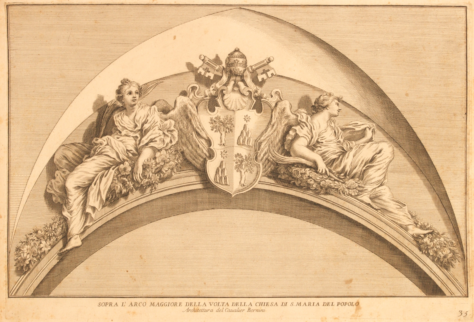 The coat of arms of Pope Alexander VII flanked by two Victories. Stucco group by Antonio Raggi.